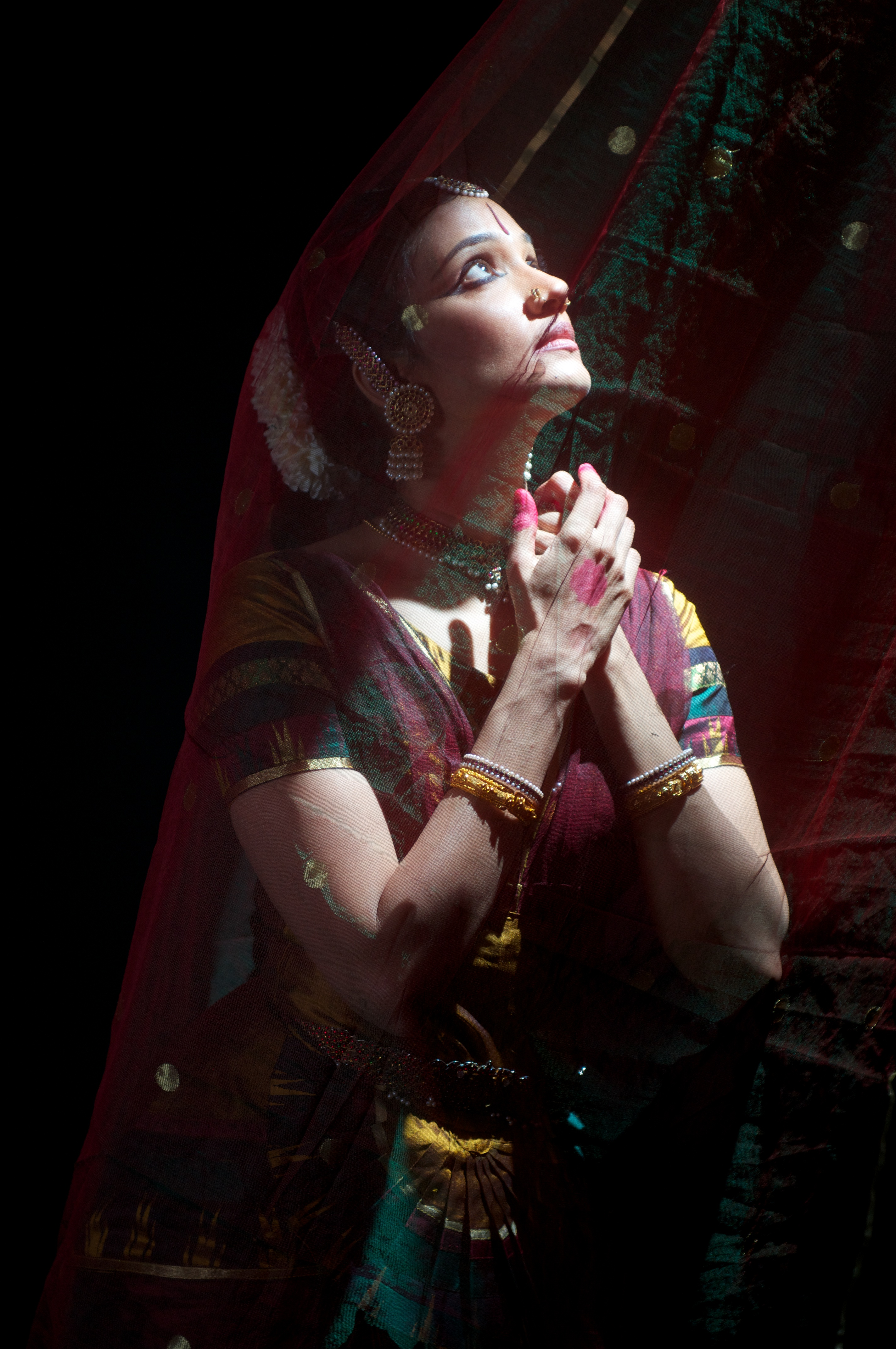 Savitha Sastry performing Soul Cages